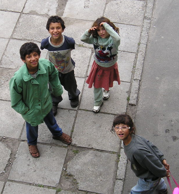 Gypsy children in the street. Ukraine.